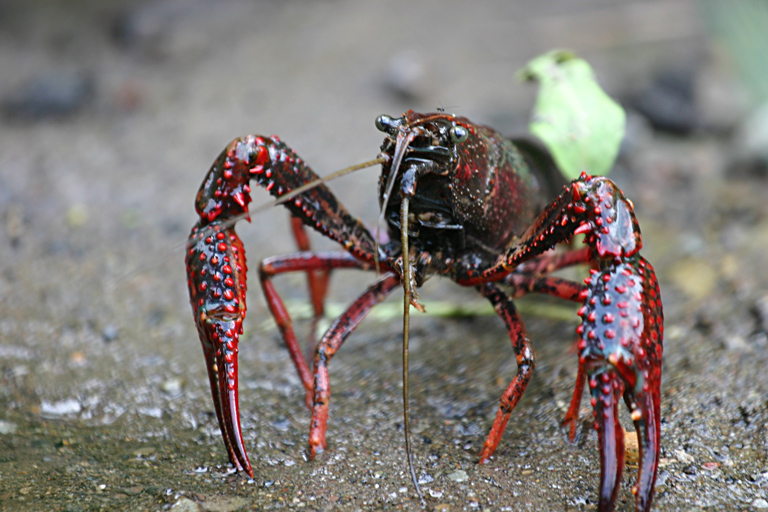 Taken in September 2006 by uploader Mike Murphy.